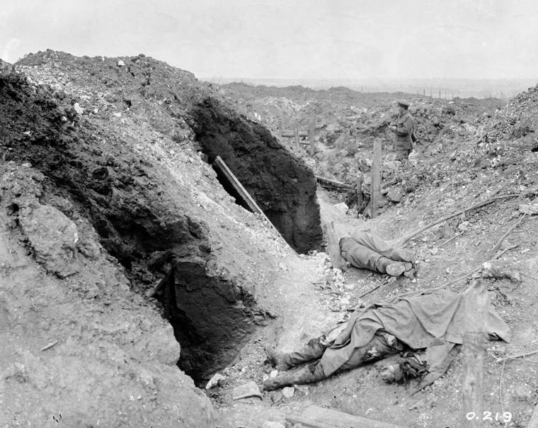 German trenches demolished by artillery (Battle of Mount Sorrel, Belgium), showing German dead. June, 1916